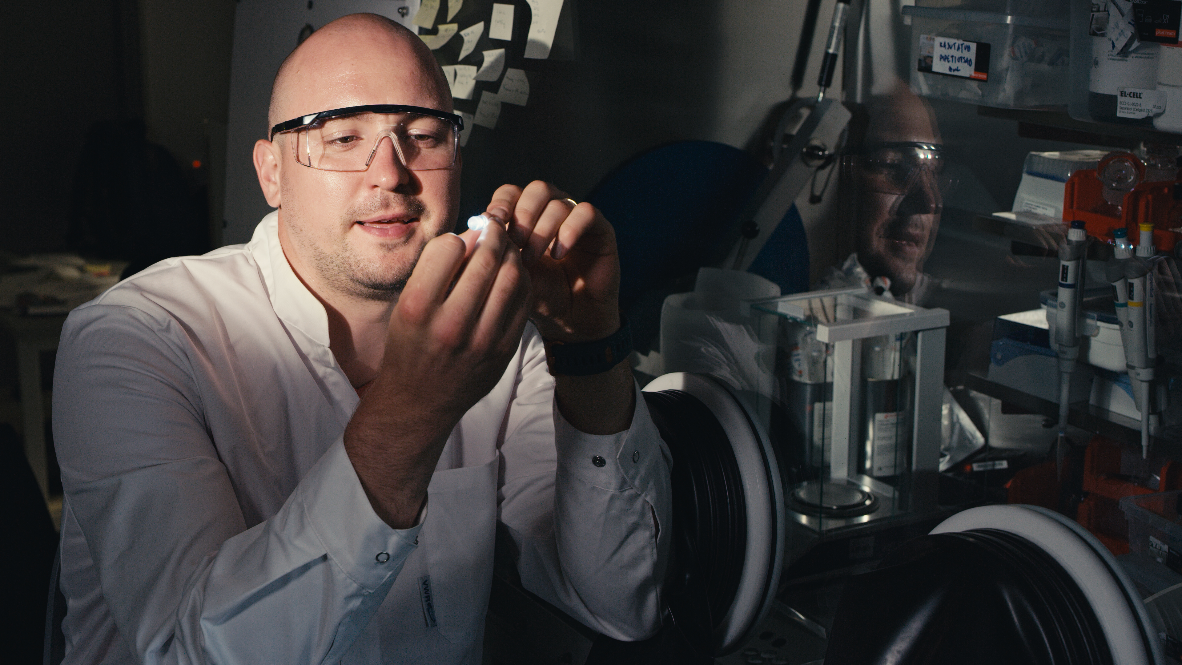 Sodium-ion battery researcher demonstrates working Na-ion battery. Ronald Väli from Chemicum has successfully lighted up an LED light, using a self-made Na-ion battery. Frame from video clip